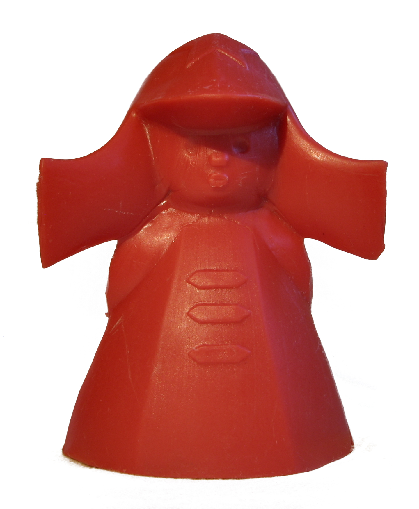 USSR toy Malchish-Kibalchish